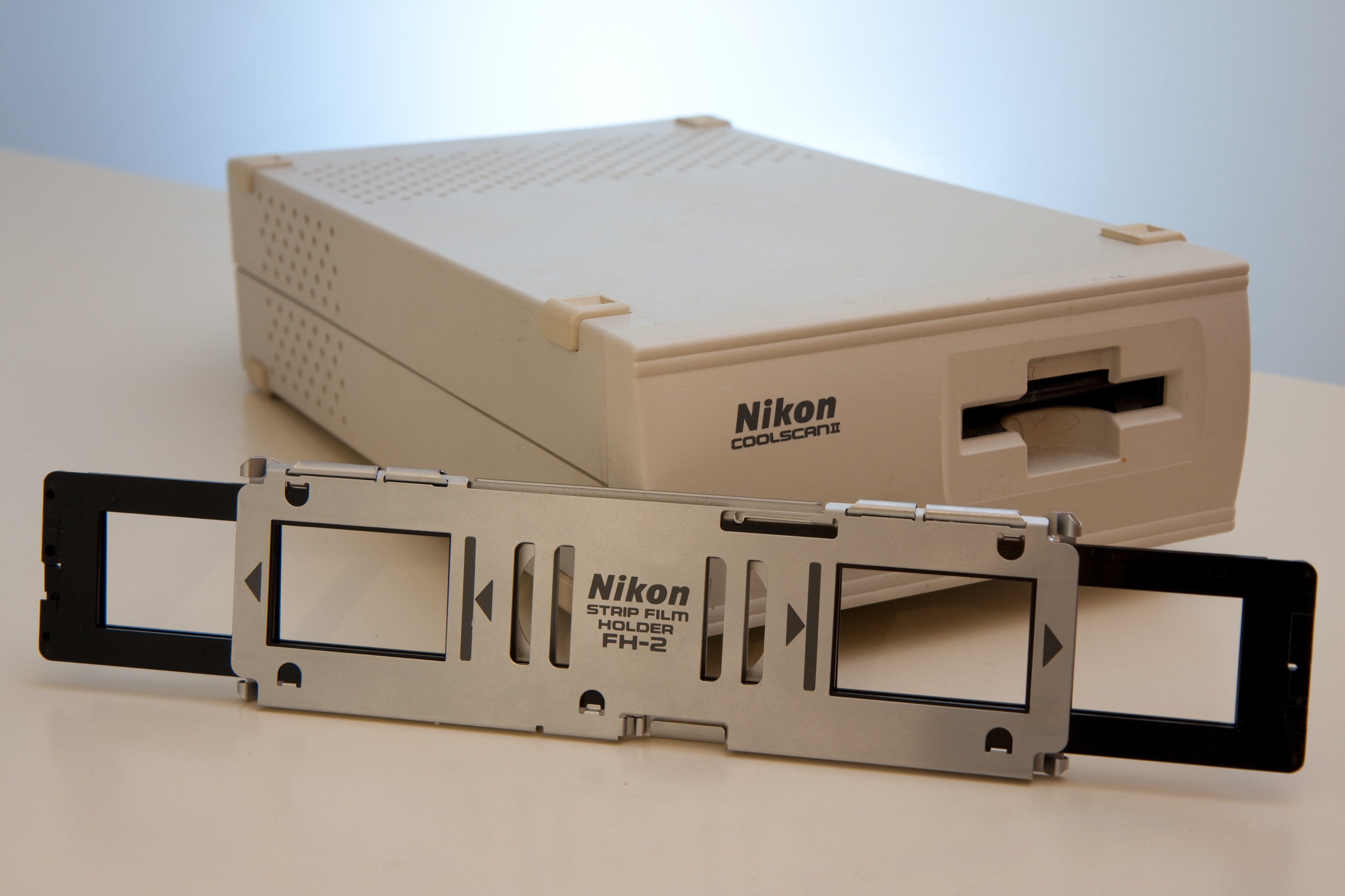 35mm film (color/B&W, negative/slide) scanner. 2592 x 3888 pixels (at 2700 dpi) using a RGB 3-color LED with a 8-bit A/D conversion. SCSI-2 compliant interface at 2.66MB/sec. Preview scan in about 20 seconds and full 3-color scan in about 80 seconds. The FH-2 strip film holder can hold up to six frames. This was the top of the line when I bought it from B&H Photo in 1996. Now, it's pretty much obsolete. I sold it on eBay for $25... it cost well over $900 brand new 12 years ago. Strobist: Canon Speedlight 580EXII through white umbrella camera right. Second Canon Speedlight 580EXII at 1/32 power with diffuser behind the Coolscan. Both fired wirelessly with the Canon ST-E2 Speedlight Transmitter.